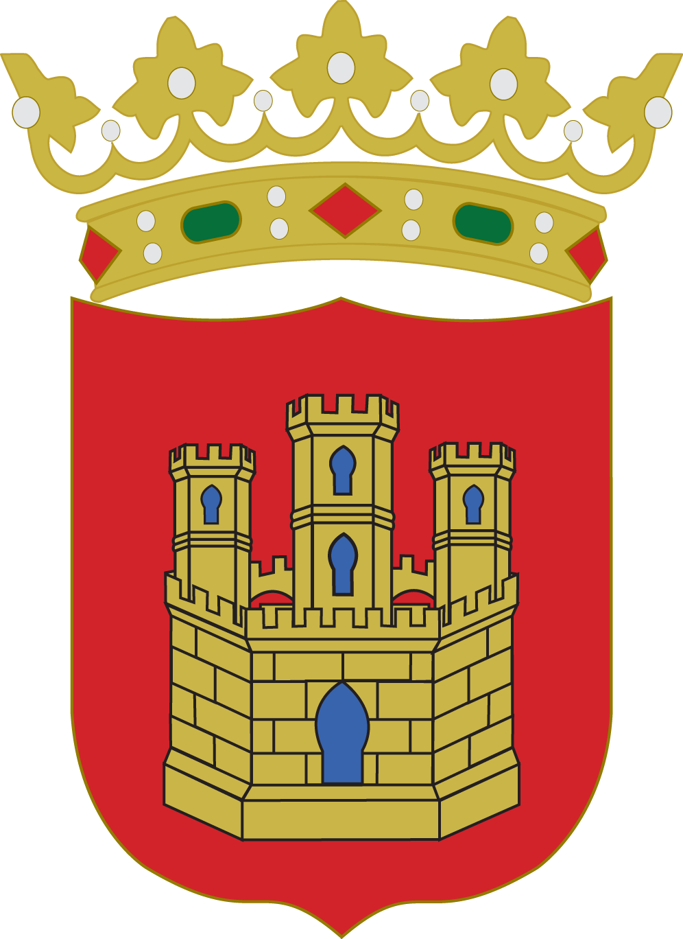 Coat of arms of the Kingdom of Castile